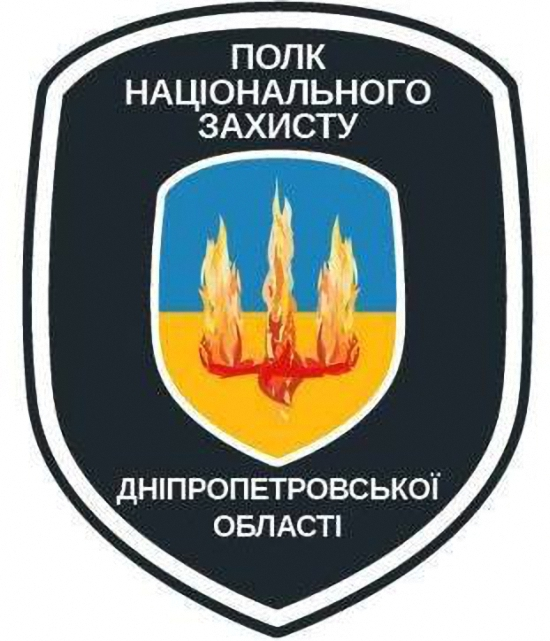 Logo of the National Defense Regiment "Dnieper" created by the Dnepropetrovsk Regional Administration in Eastern Ukraine. The battalions and companies based on this Regiment are formed on the model of Israel Defence Forces Reserve. Personnel - 1700 people. Nicknamed "Ihor Kolomoisky's Army".